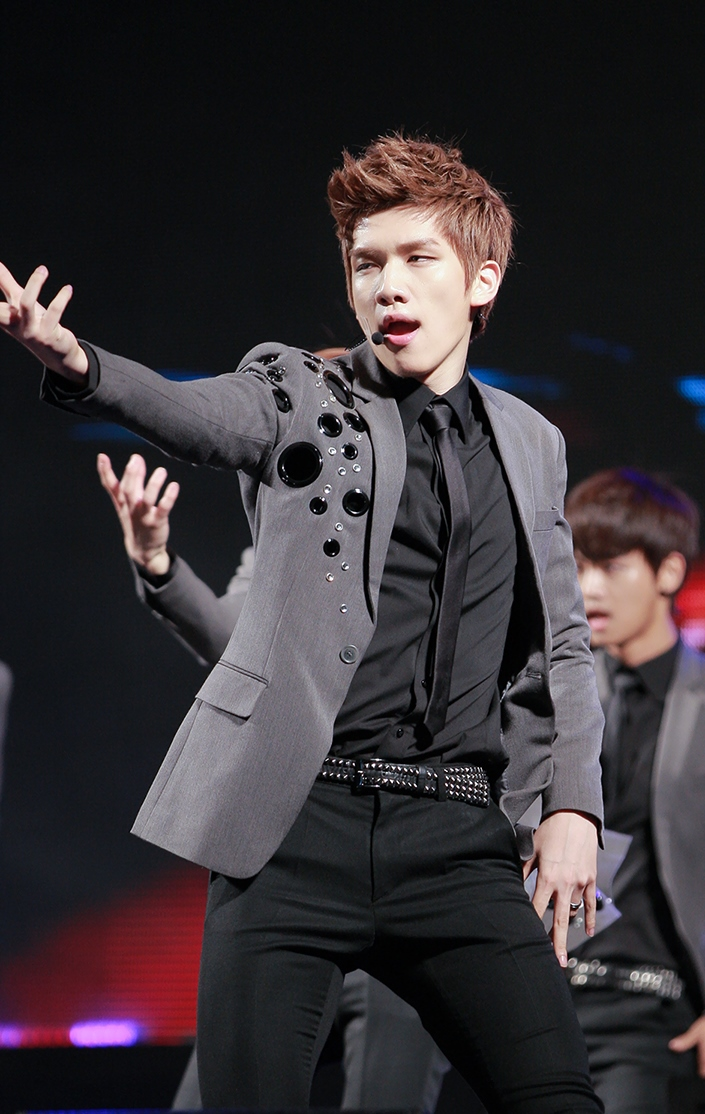 Hyuk Han at the Culture and Arts Festival in Seoul Plaza on October 13, 2013.